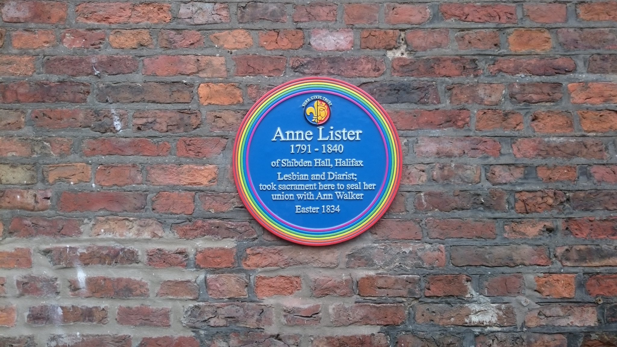 The blue plaque has a rainbow border and is inscribed: "Anne Lister 1791-1840 of Shibden Hall, Halifax Lesbian and Diarist; took sacrament here to seal her union with Ann Walker Easter 1834"